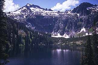 United States Forest Service photo of the Selway-Bitterroot Wilderness